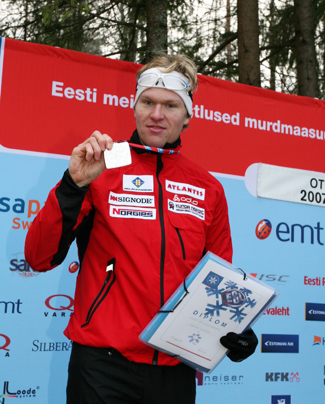 Peeter Kümmel, 2007, Otepää, Tehvandi